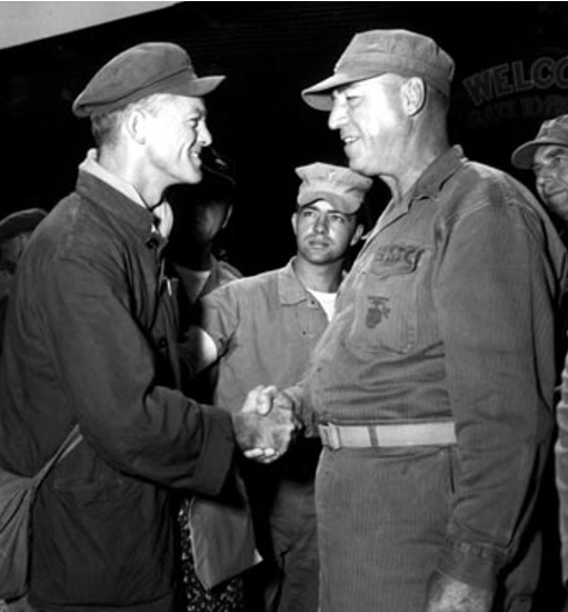 1st Marine Division Assistant Division Commander, BG Joseph C. Burger welcomes Major John N. McLaughlin folowing his release from captivity on 5 September 1953.